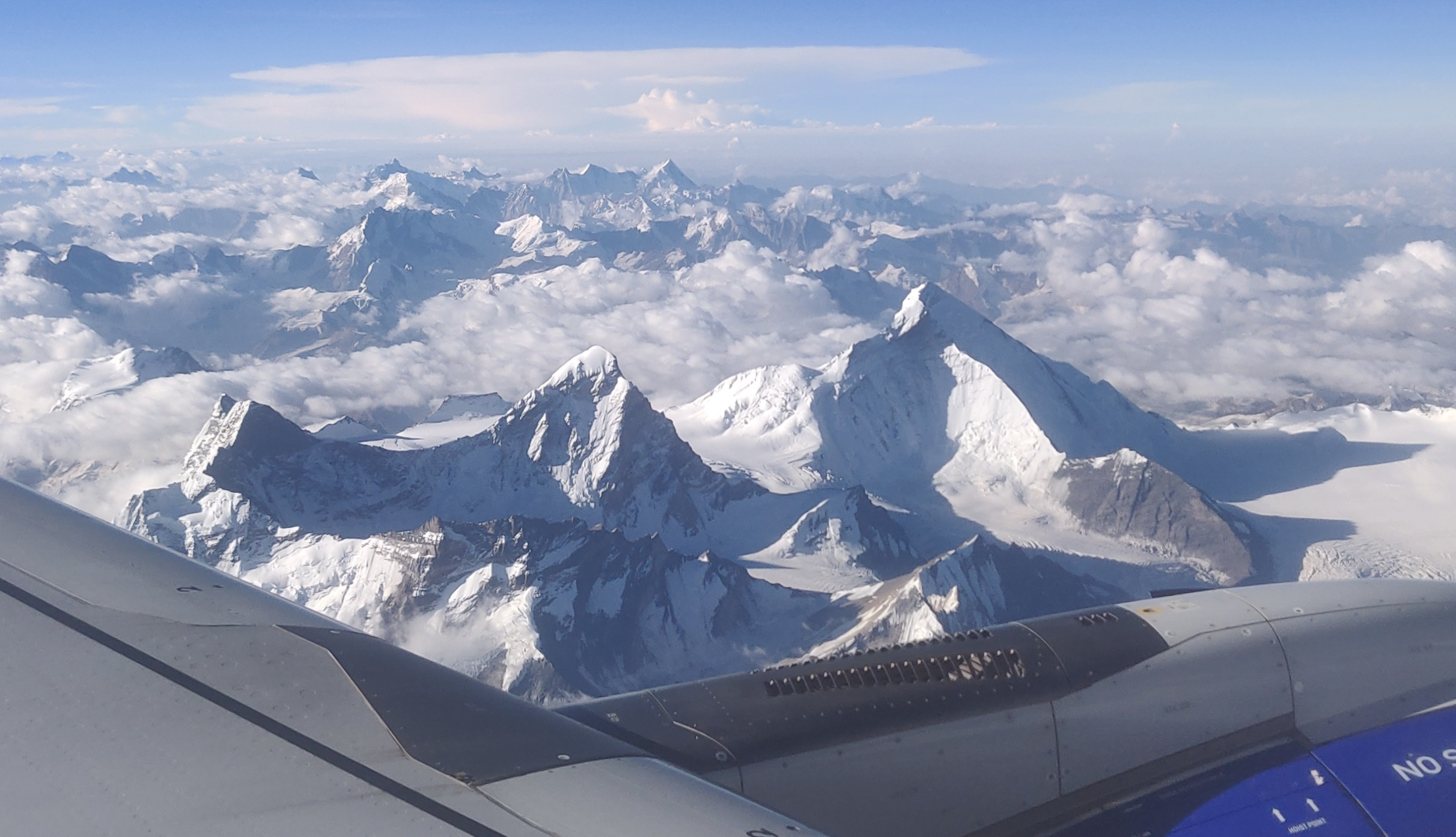 This can be seen on the left side of the aircraft flying from Leh to Srinagar around 20 minutes into flight